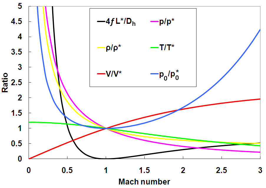 This is a chart of various Fanno flow properties